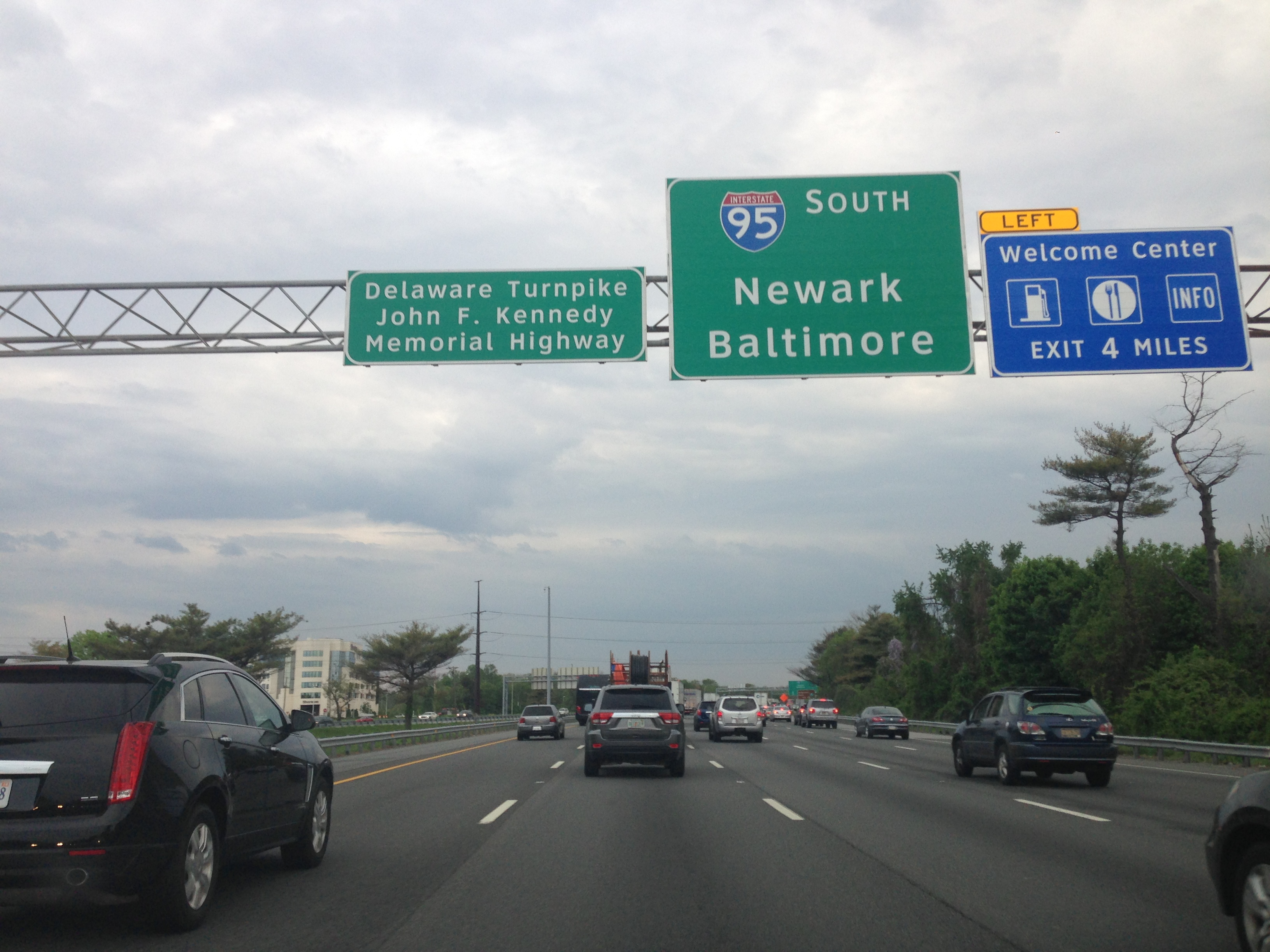 View south along the Delaware Turnpike (Interstate 95) just south of Exit 5